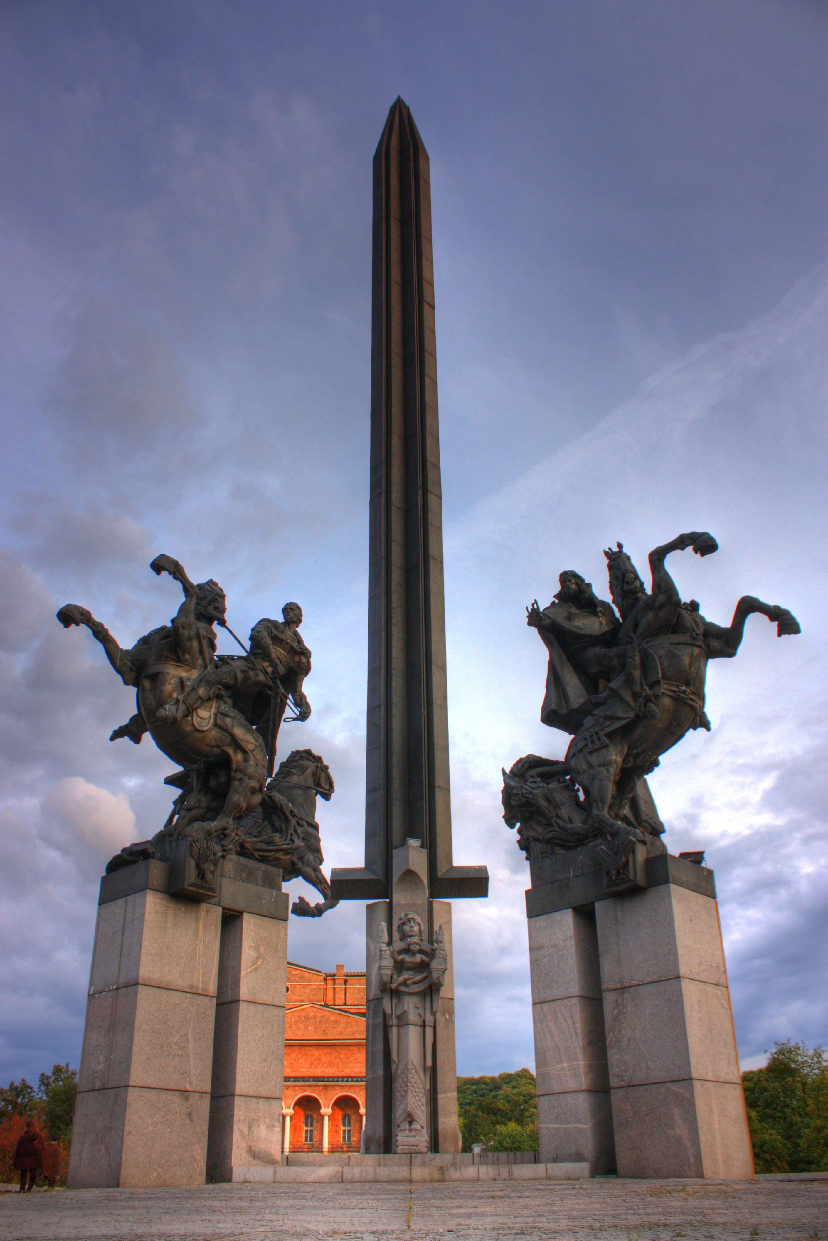 Monument of the Asens in Veliko Tarnovo, Bulgaria